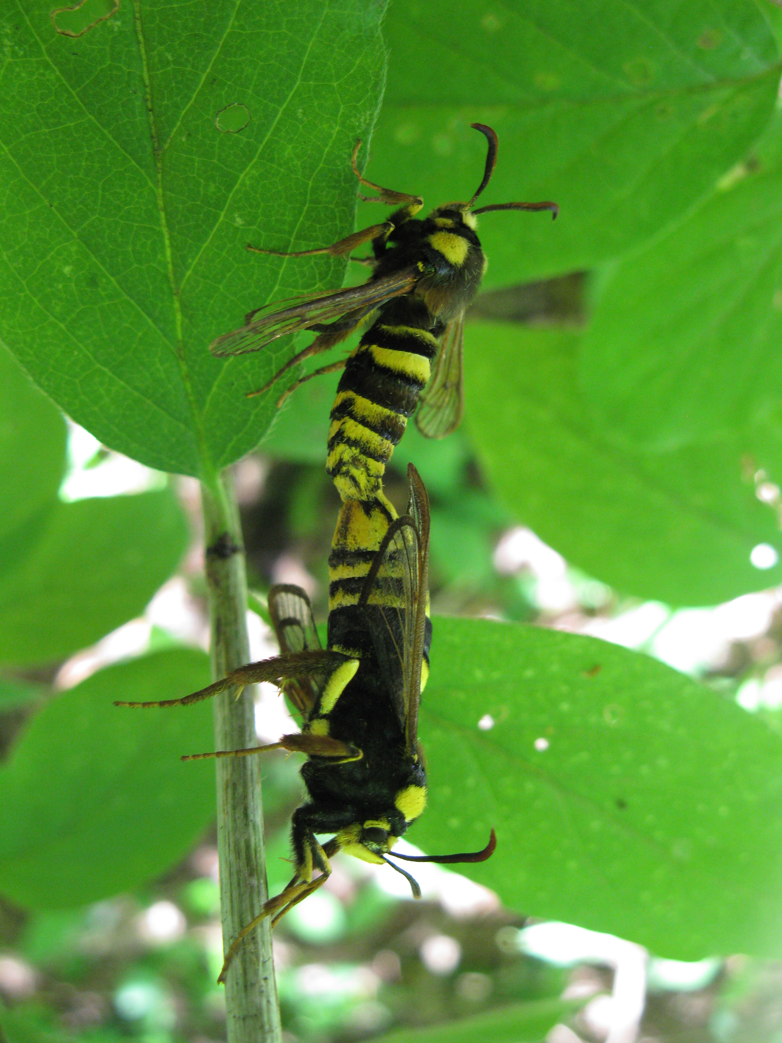 Sesia Apiformis mating in Untulanharju, Lammi, Hämeenlinna, Finland.